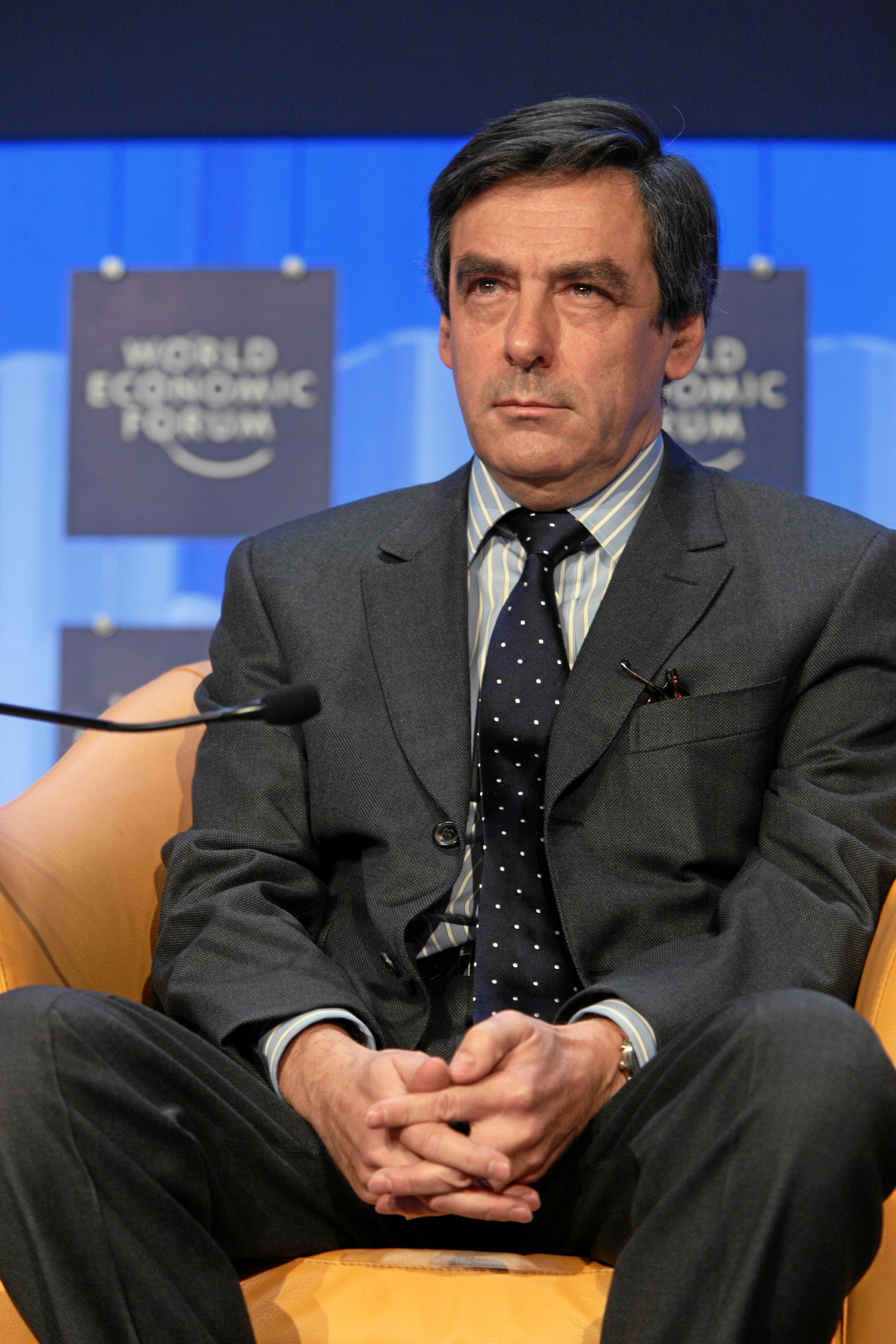 DAVOS/SWITZERLAND, 24JAN08 - Francois Fillon, Prime Minister of France looks thoughtful during the session 'France on the Move' at the Annual Meeting 2008 of the World Economic Forum in Davos, Switzerland, January 24, 2008. Copyright World Economic Forum ( by Remy Steinegger Read the summary or watch this session on the World Economic Forum's channel on YouTube